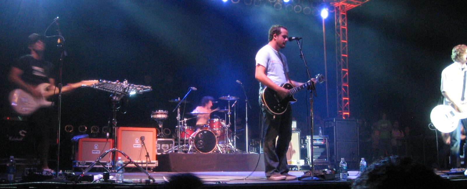 Relient K performing at Purple Door